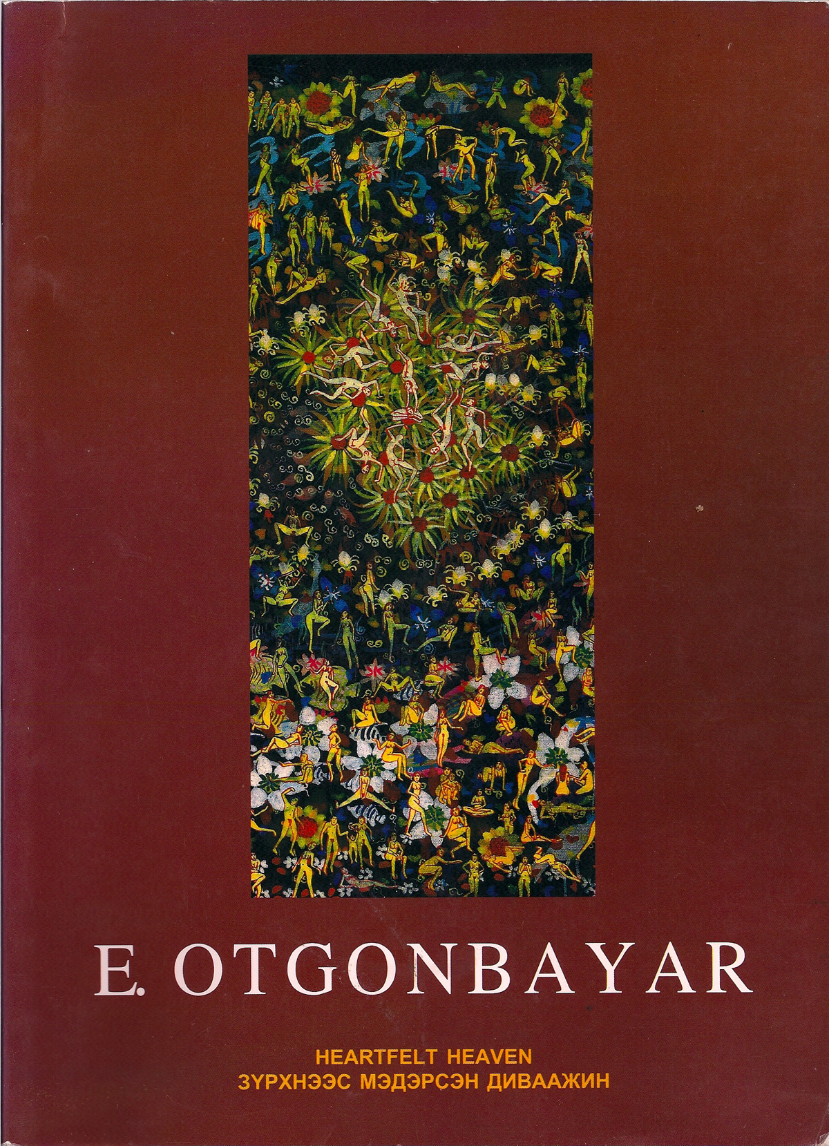 E.OTGONBAYAR - HEARTFELT HEAVEN